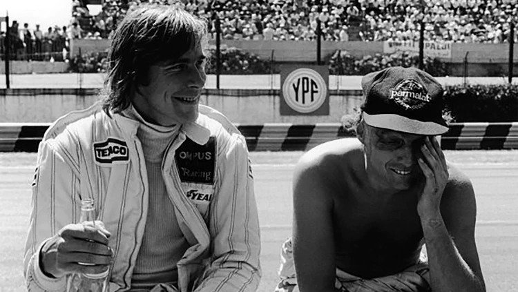 James Hunt and Niki Lauda during the F1 Grand Prix held in Argentina.